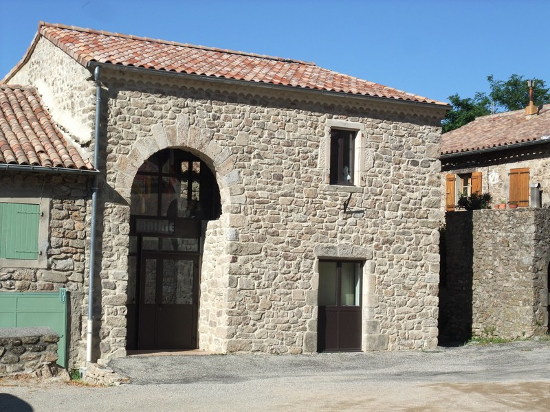 City Hall Laboule